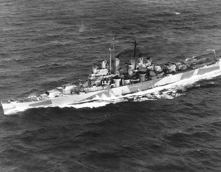 The U.S. Navy light cruiser USS Springfield (CL-66) underway off Boston, Massachusetts (USA), on 6 January 1945. The ship's camouflage is Measure 33, Design 24d.